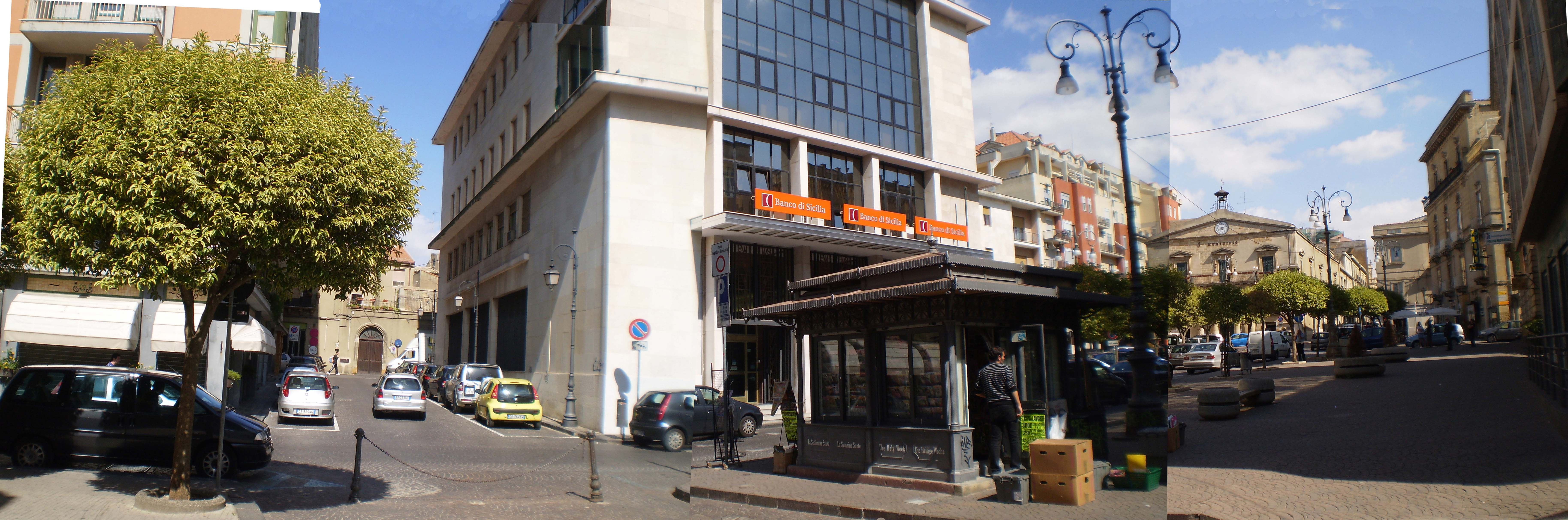 Enna Roma Street between VI dicembre Square and Umberto I Square